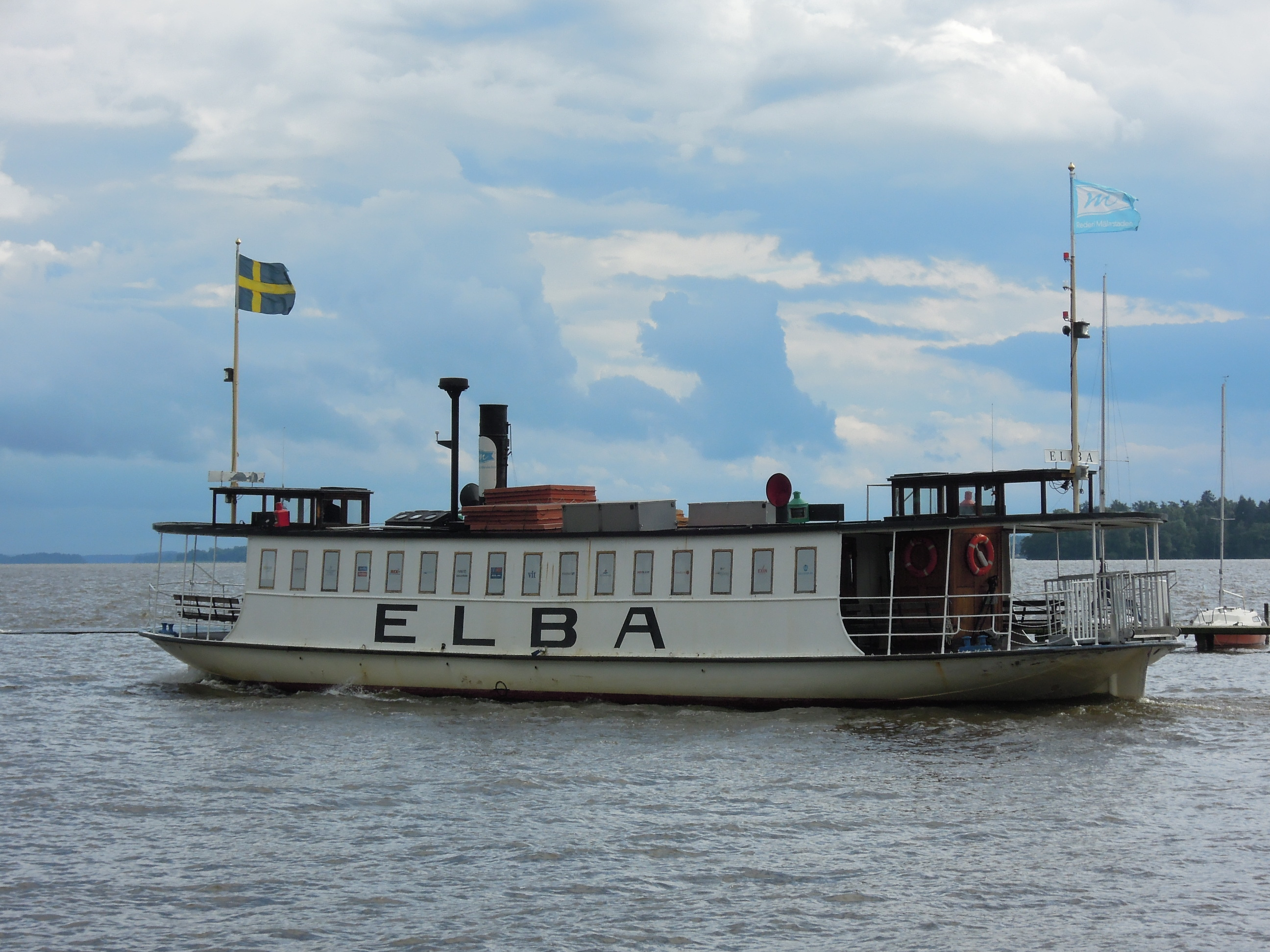 M/S Elba in traffic at Västerås, Sweden. Built 1897. In ferry operation around Västerås in lake Mälaren since 1917. Replaced steam engine to diesel engine in 1952.